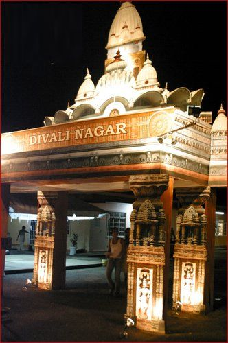 PIC TAKEN AT 2006 DIVALI NAGAR IN TRINIDAD.